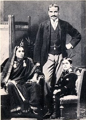 Jawaharlal Nehru as a young child with his parents Motilal and Swaruprani Nehru.